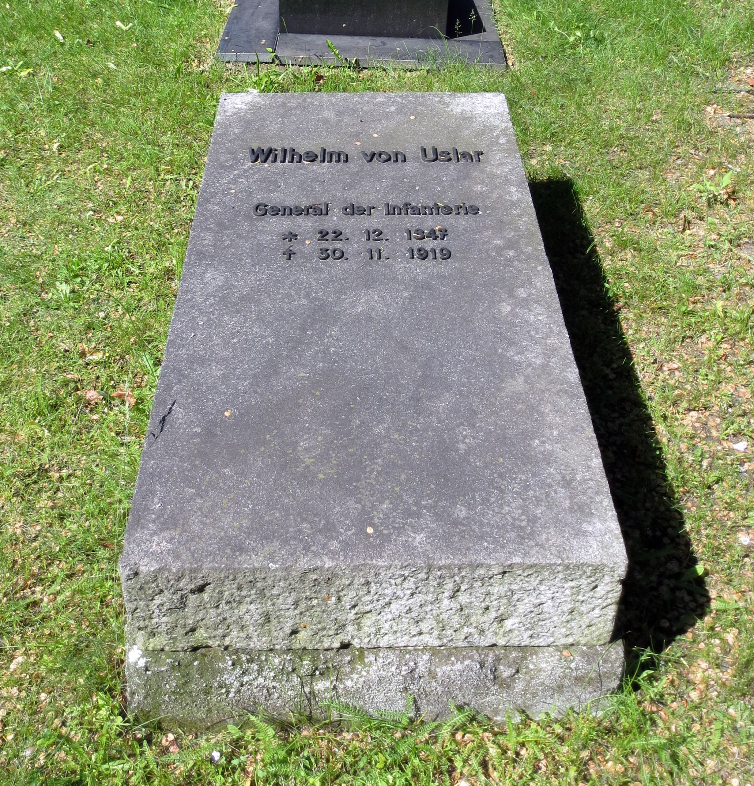 Grave of the General of the Infantry Wilhelm von Uslar (1847-1919) on Invalidenfriedhof cemetery in Berlin, grave field A.